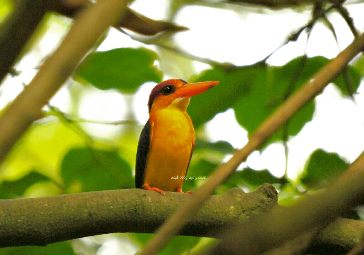 odk is a fantastik bird in dapoli.